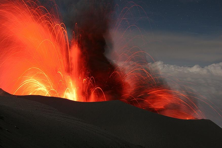 Volcano Semeru on Java, Indonesia